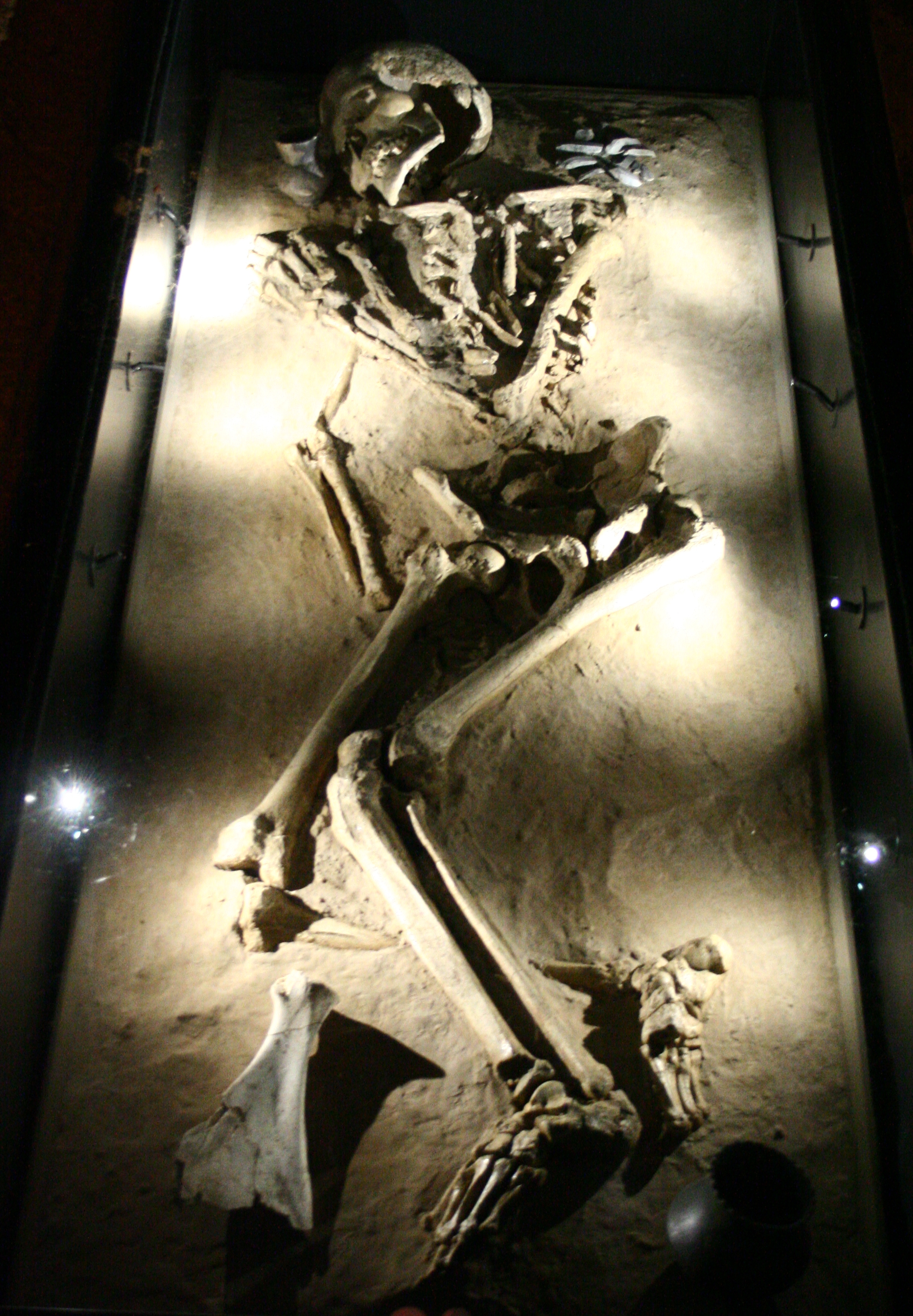 Grave 83 from the neolithic cemetery of Rössen, Saxony-Anhalt, Gatersleben culture, Archaeological Museum Hamburg